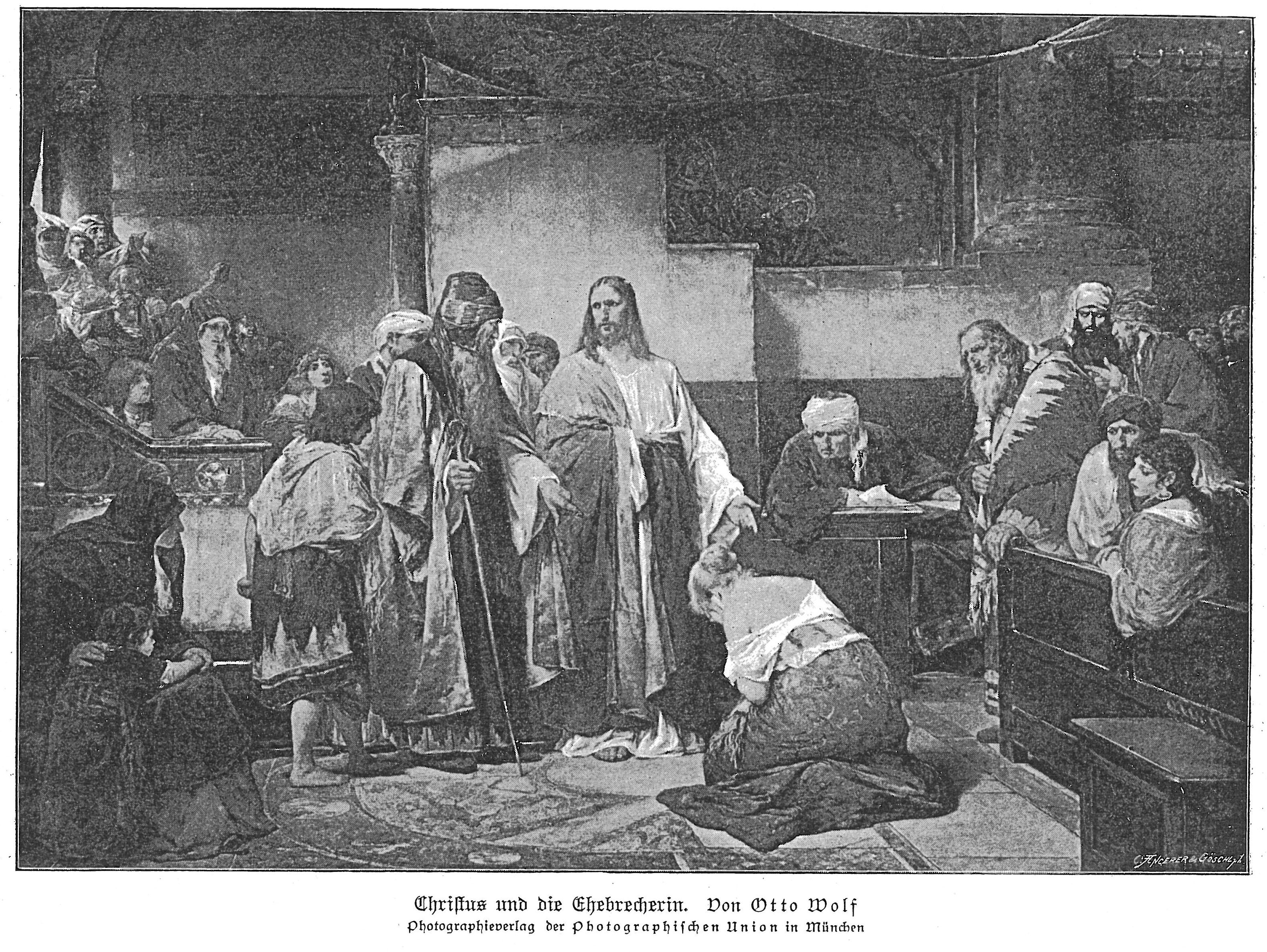 This is a scan of the historical document: Title: Die Kunst für alle München 1886 - Image: Christus und die Ehebrecherin - Otto Friedrich Wolf